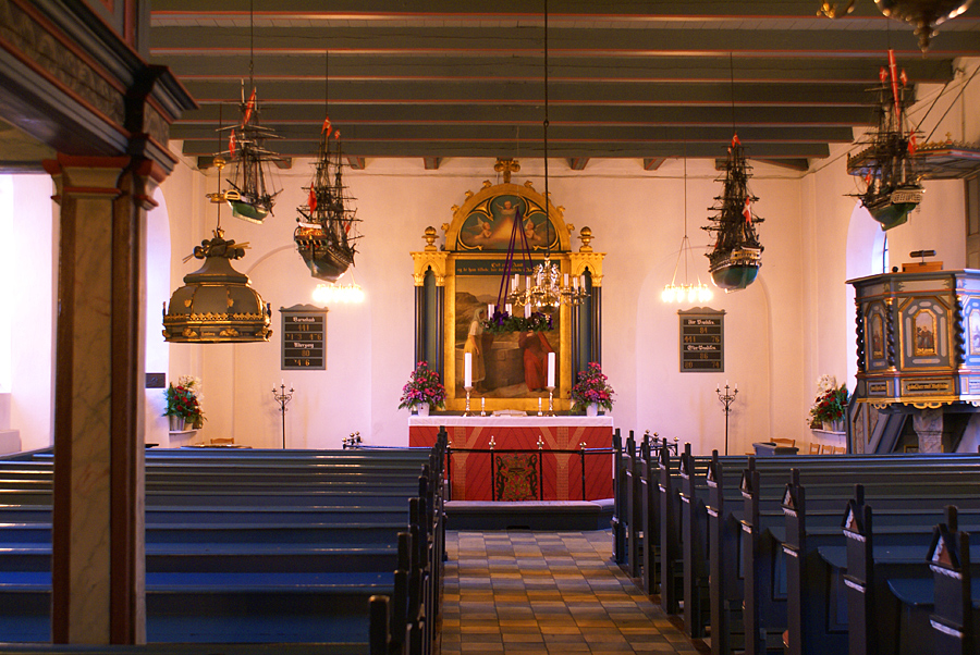 Inside Hornbæk Church in the town Hornbæk in Helsingør (Elsinore) Kommune, 12 km northwest of Elsinore, Denmark